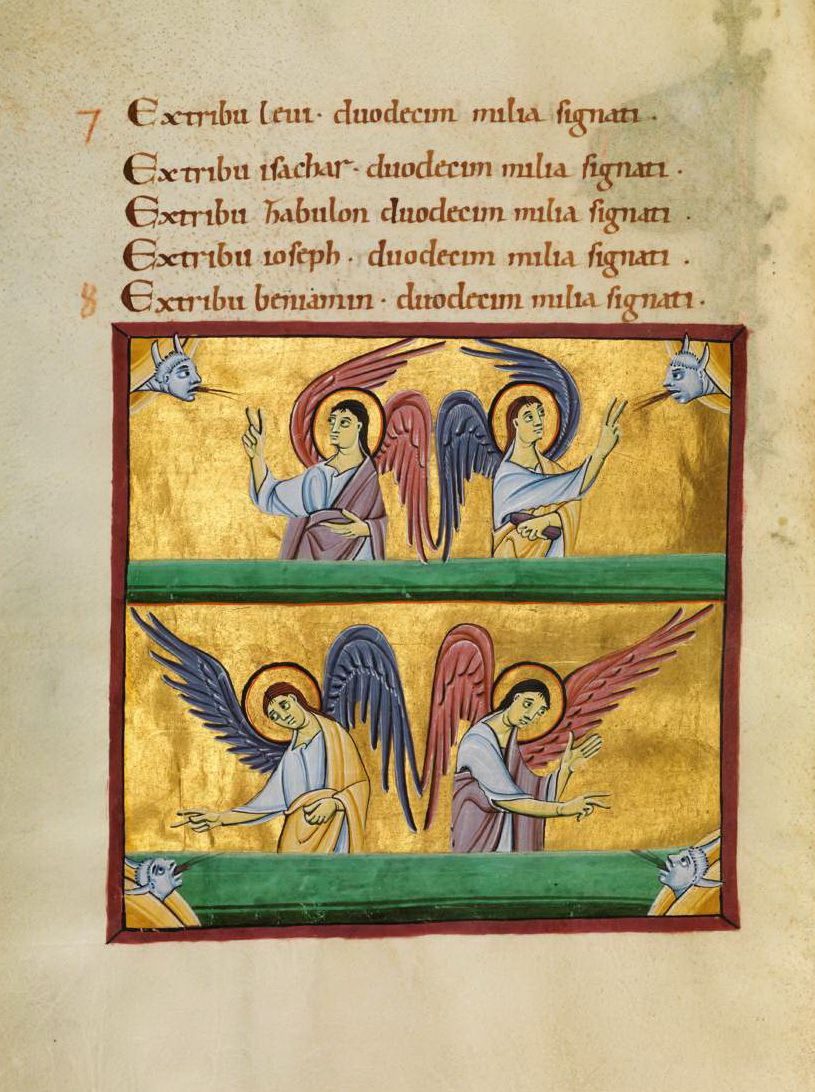 A page from the Bamberg Apocalypse Angels hold the four winds.